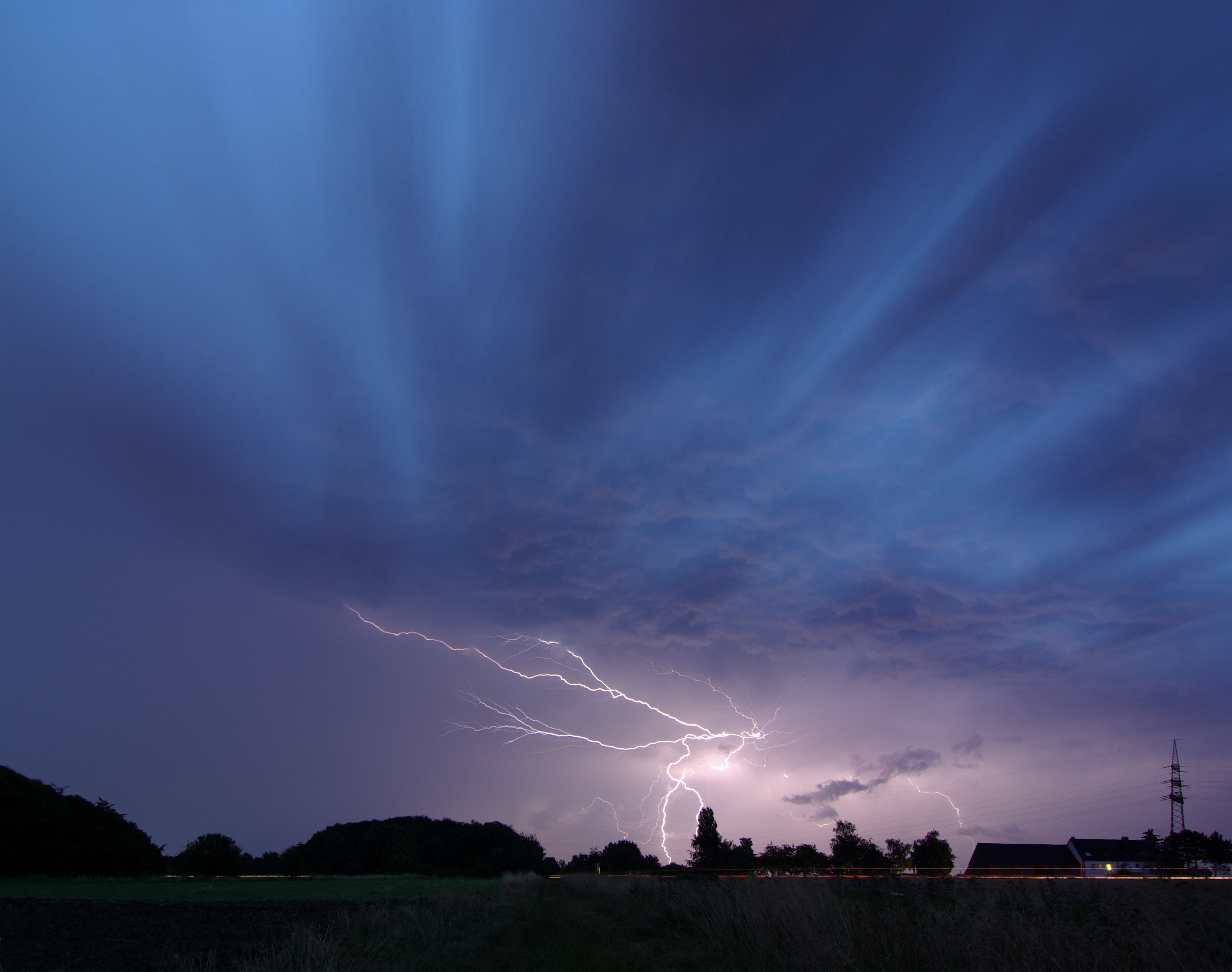 A thunderstorm above Unna, in Germany.